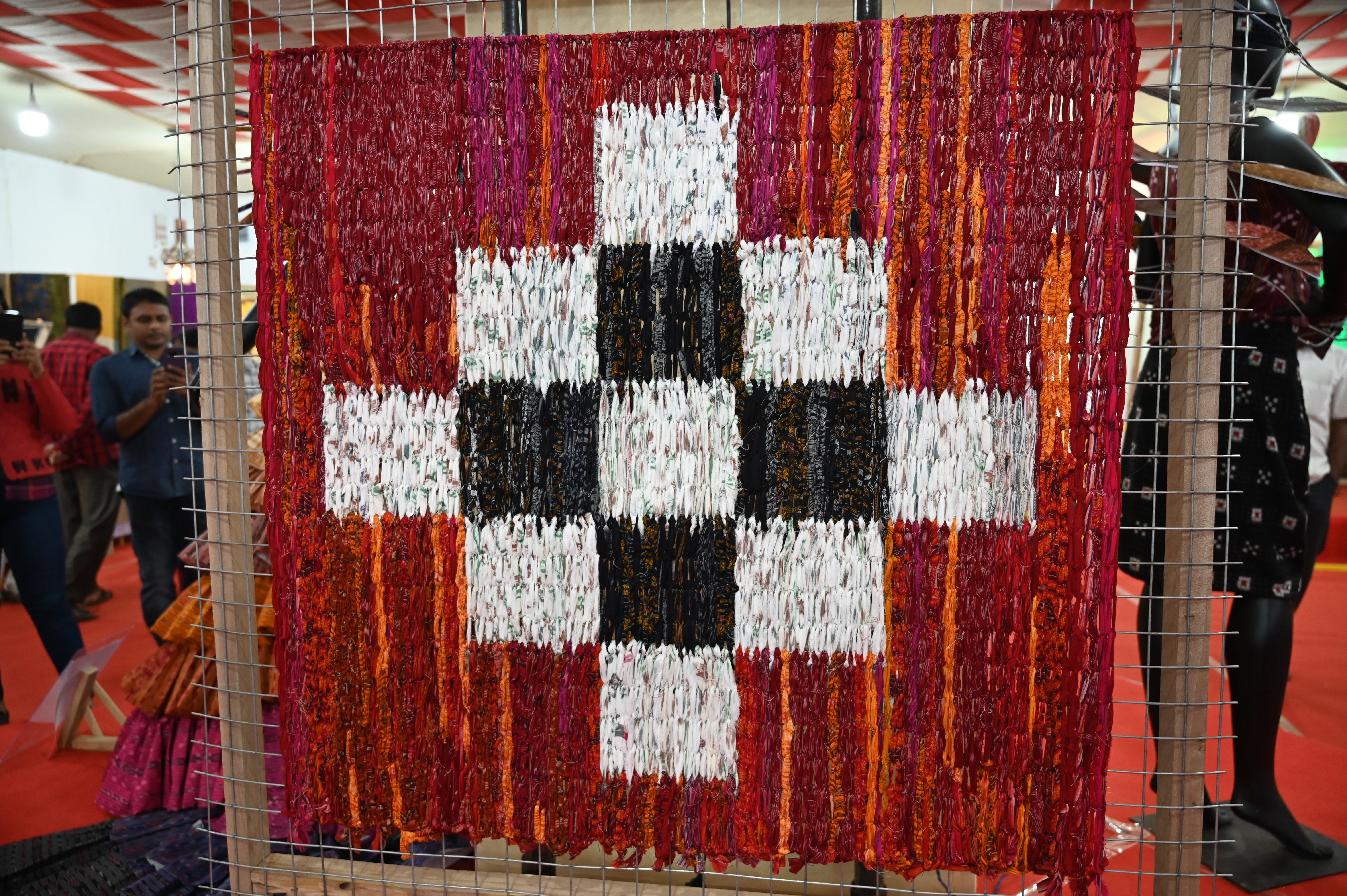 Pasapali, resembling chess-like boards used for certain games, is a traditional motif of the sarees of Odisha. It is especially popular in the Bargarh district. It is made by the technique of knotting.